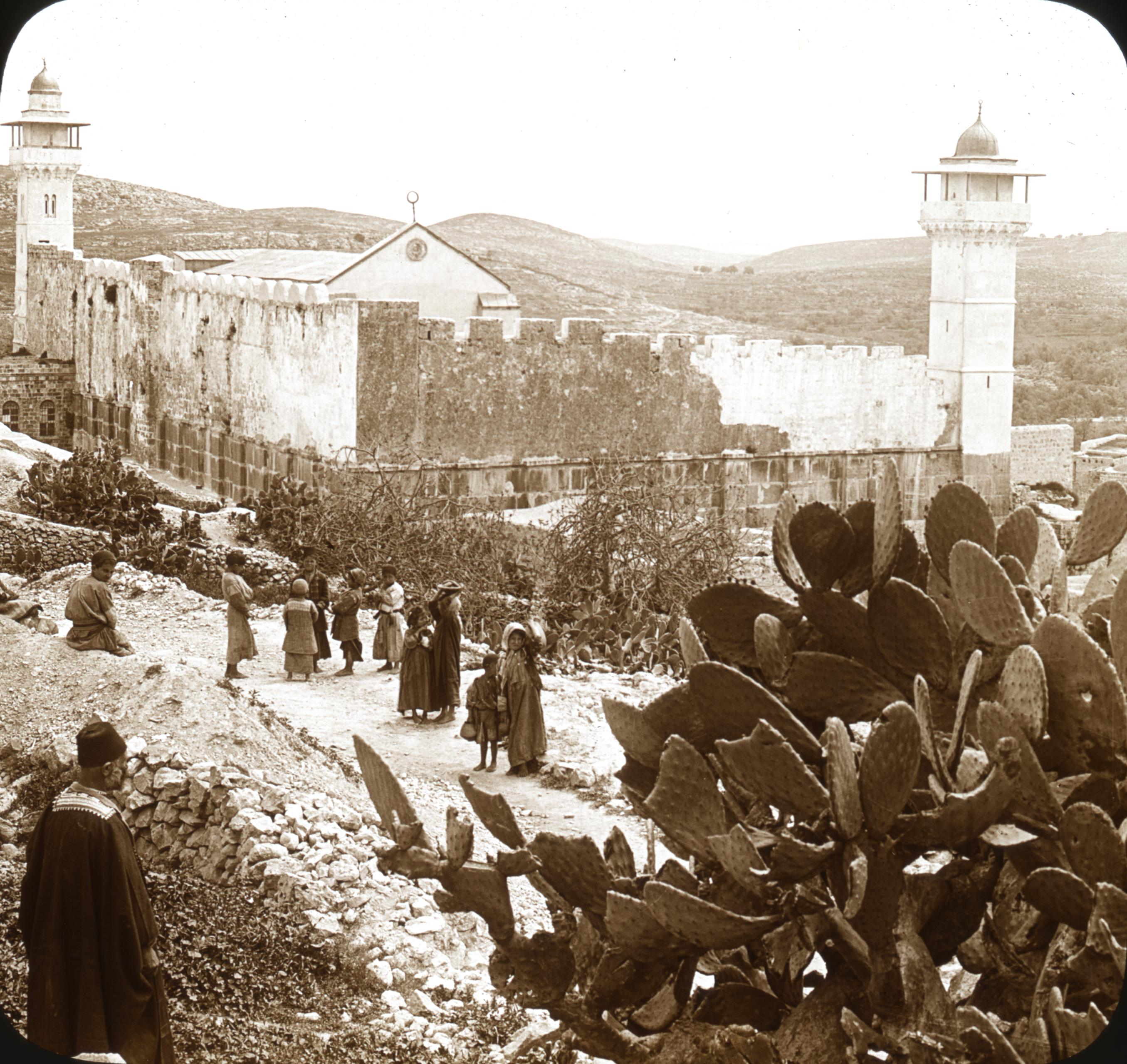 Image Description from historic lecture booklet: "You can see that this mosque with its the followers of Mohamed may enter them. Tradition declares that in the cave under the court of that mosque were laid the bodies of Abraham and Sarah, of Issac and Rebekah, of Leah and the mummified form of Jacob. It may be that in some revolution the power of the Turk may be broken; and that cave may give up the mummy of Jacob, as caves in Egypt have given up the forms of great conquering kings, Seti and Rameses." Original Collection: Visual Instruction Department Lantern Slides Item Number: P217:set 013 041 You can find this image by searching for the item number by clicking here. Want more? You can find more digital resources online. We're happy for you to share this digital image within the spirit of The Commons; however, certain restrictions on high quality reproductions of the original physical version may apply. To read more about what “no known restrictions” means, please visit the Special Collections & Archives website, or contact staff at the OSU Special Collections & Archives Research Center for details.